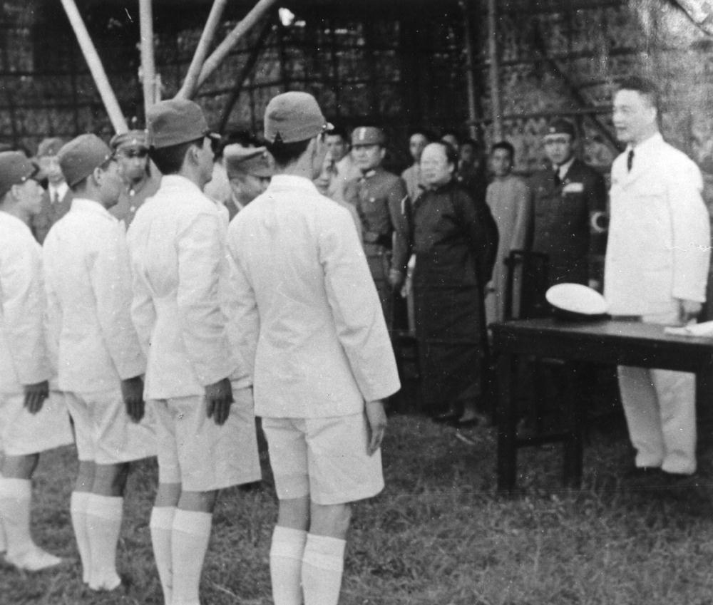 Wang Jingwei and his wife